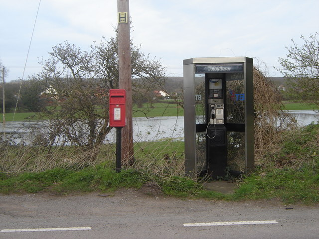 Telephone kiosk and Post box near Caldicot The water behind is not a lake, but floods in a field.